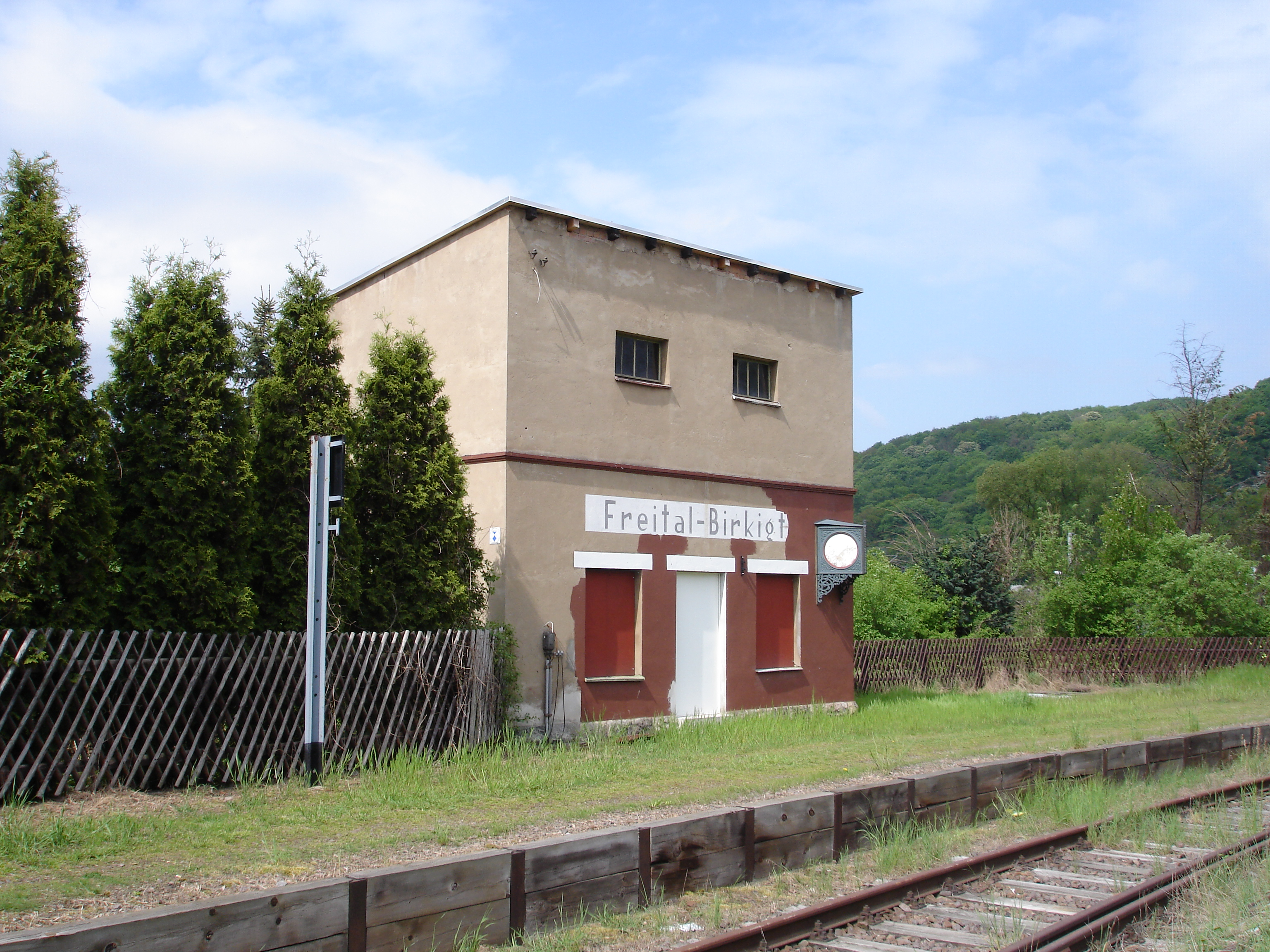 waterstation in Freital-Birkigt of Windbergbahn, Germany